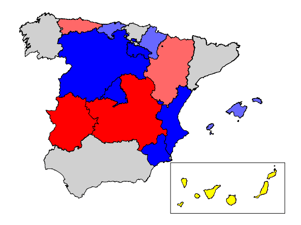 2003 regional elections results in Spain